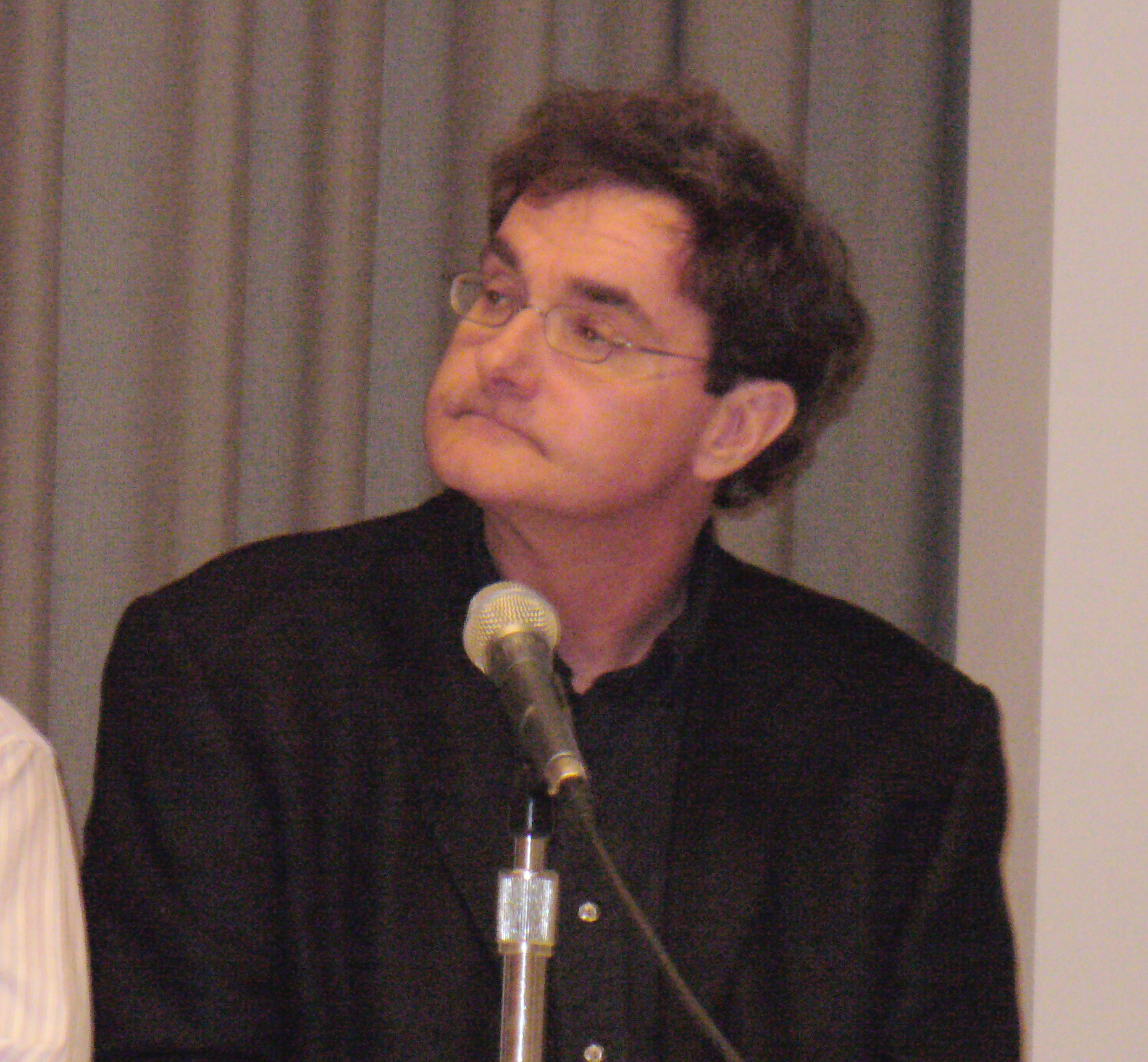 Ronald Bailey by David Shankbone